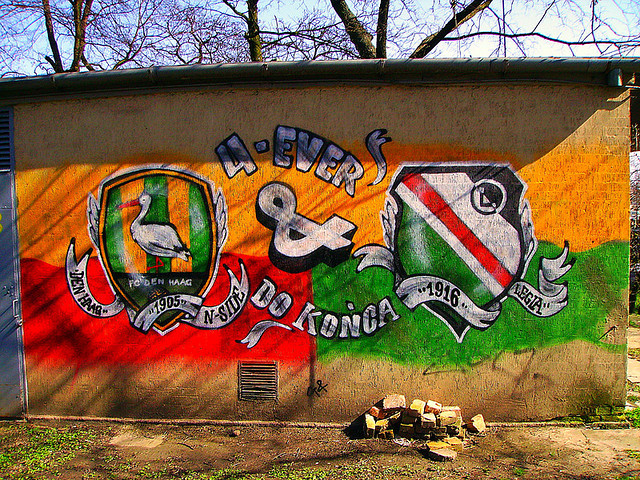 Graffiti celebrating friendship between Legia Warszawa football team (Poland) and ADO Den Haag (Netherland).